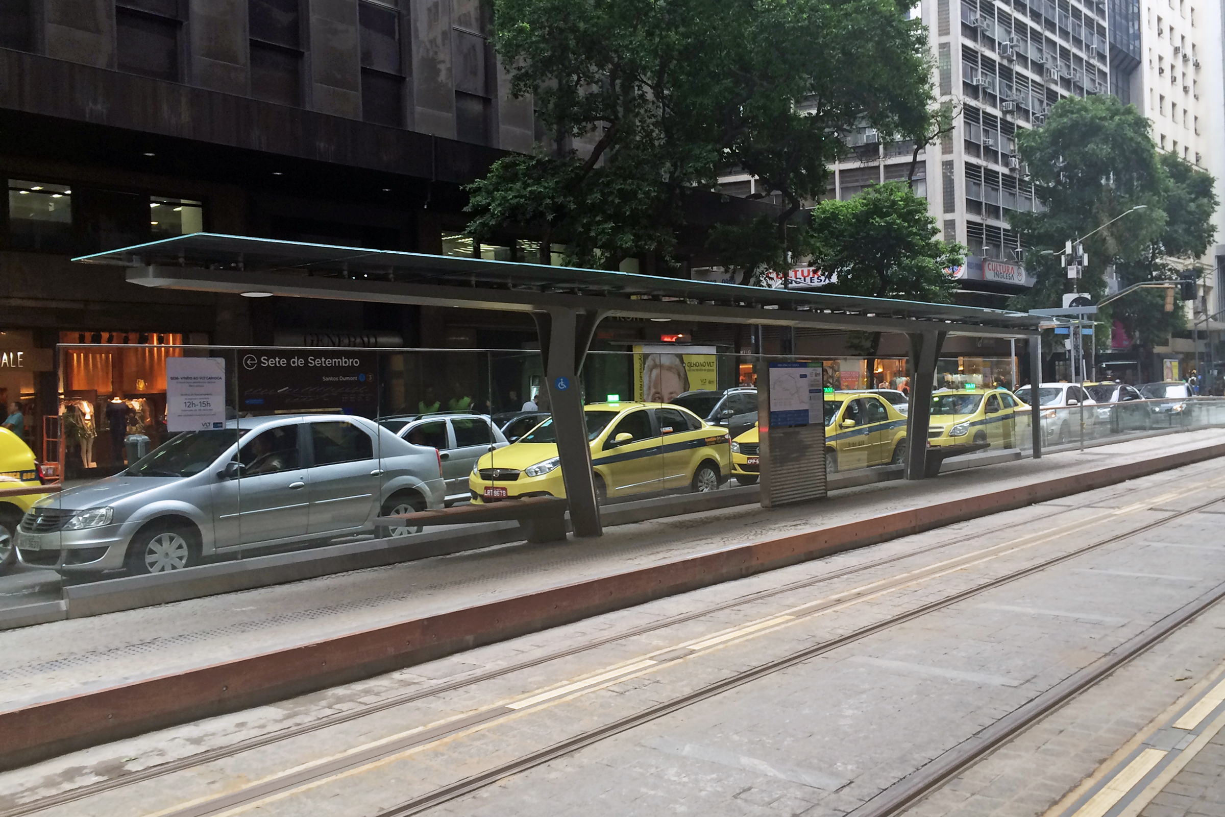 VLT Rio de Janeiro, Sete de Setembro station, Rio Branco Ave.